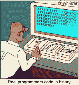 Programmer